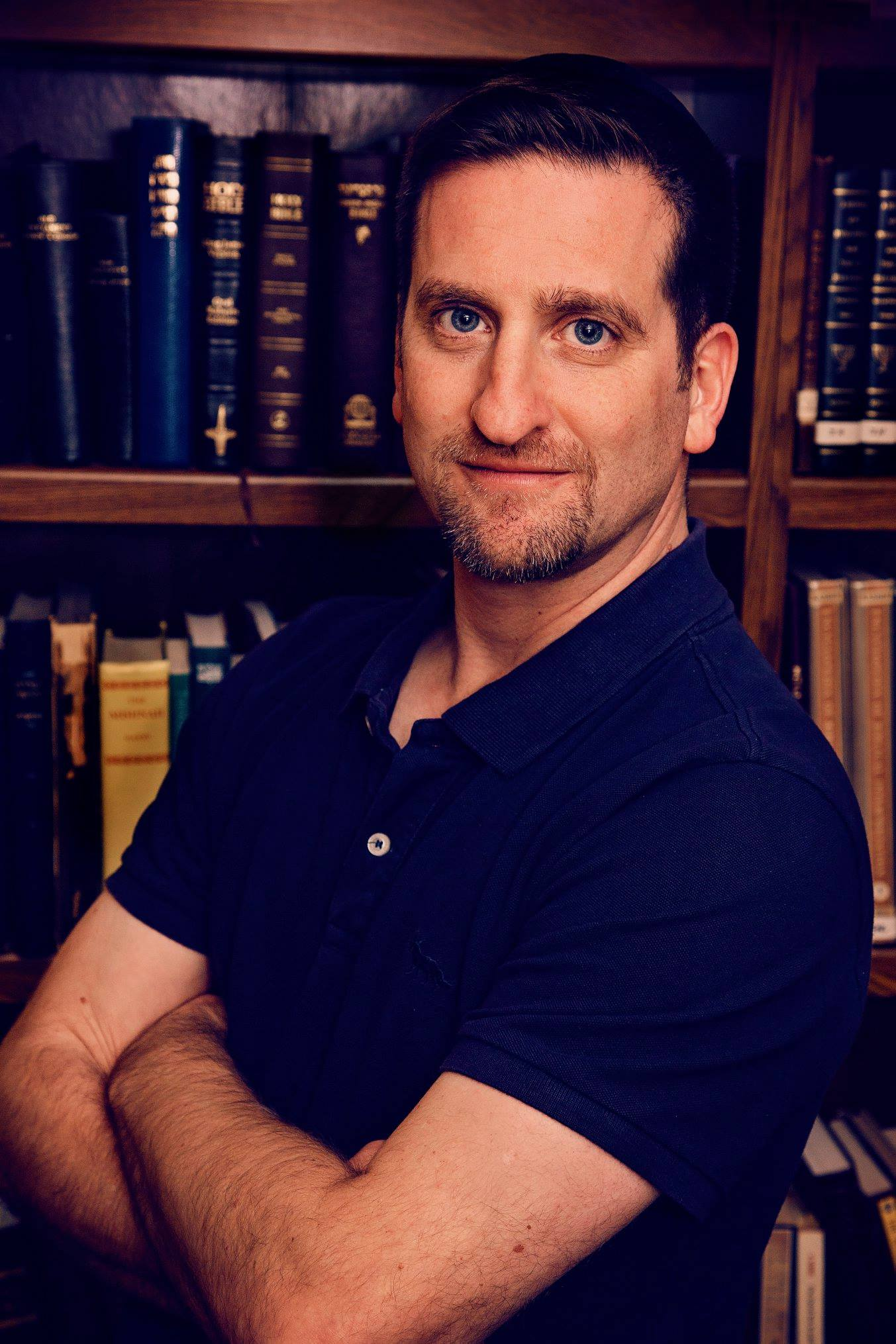 David Nekrutman, February 2019